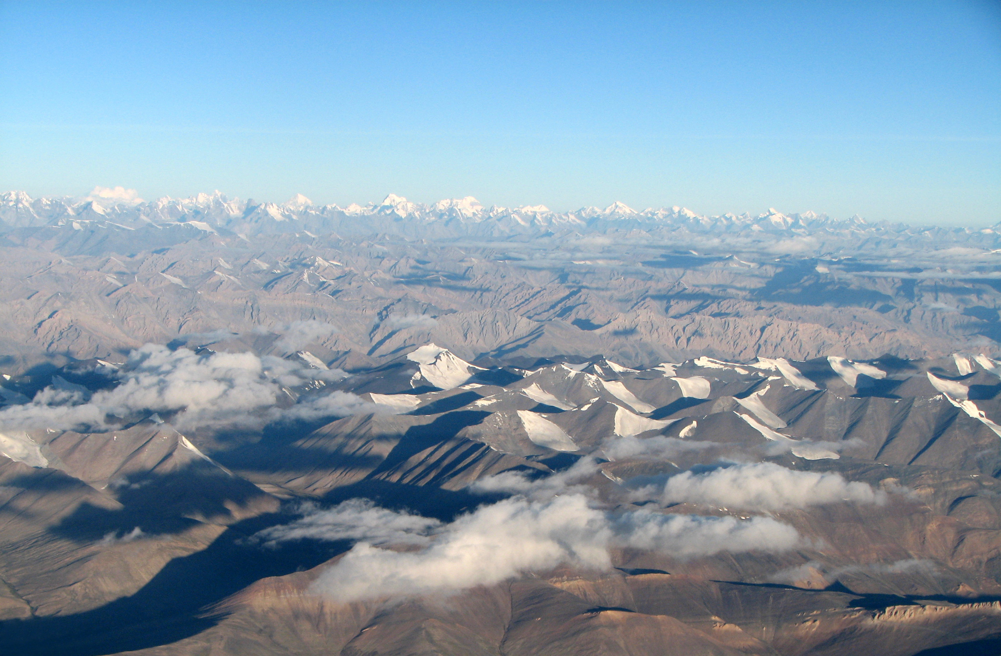 "Endless snow-clad Himalayan mountains, the scale is humbling."